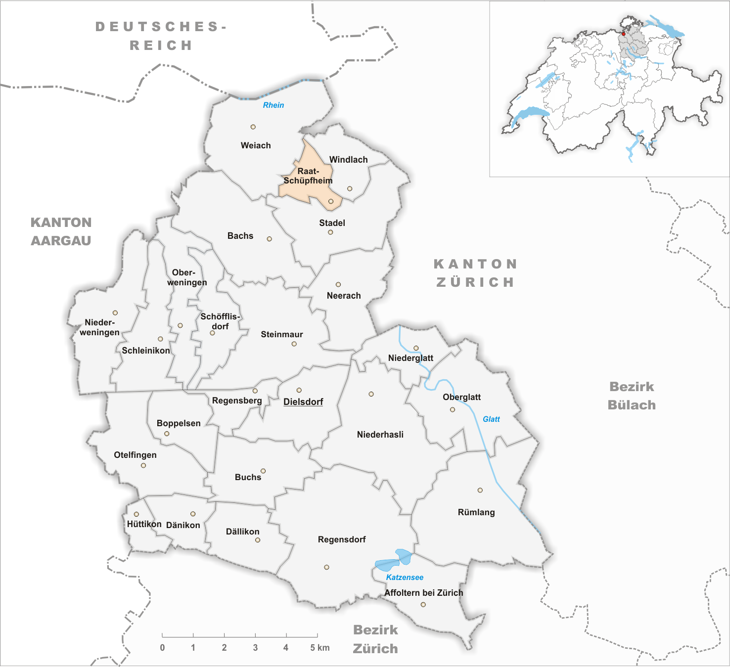 Municipality Raat-Schüpfheim